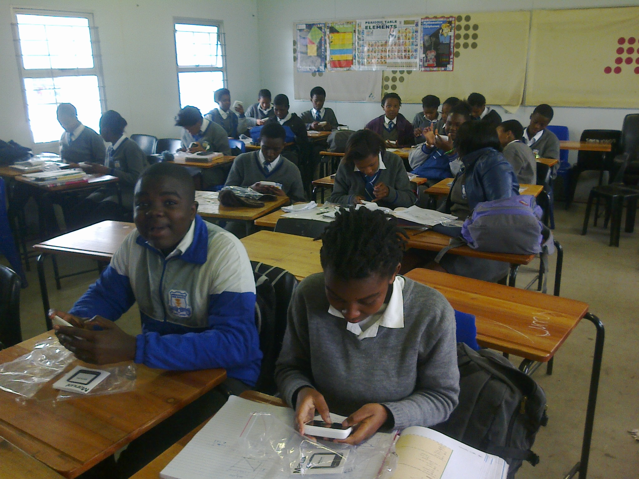 WikiReaders